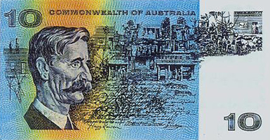 This is an image of the back of the paper Australian ten-dollar note, circulated from 1966 to 1994